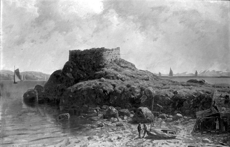 depicted place: Fort Dumpling